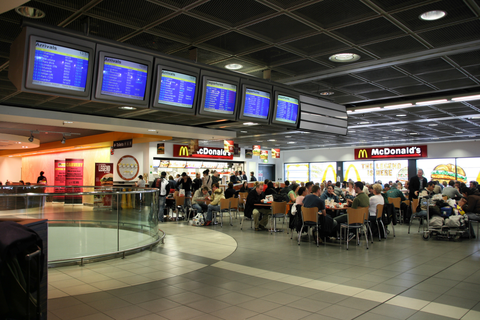 Dublin Internetional Airport - departure area interior. McDonald's restaurant.